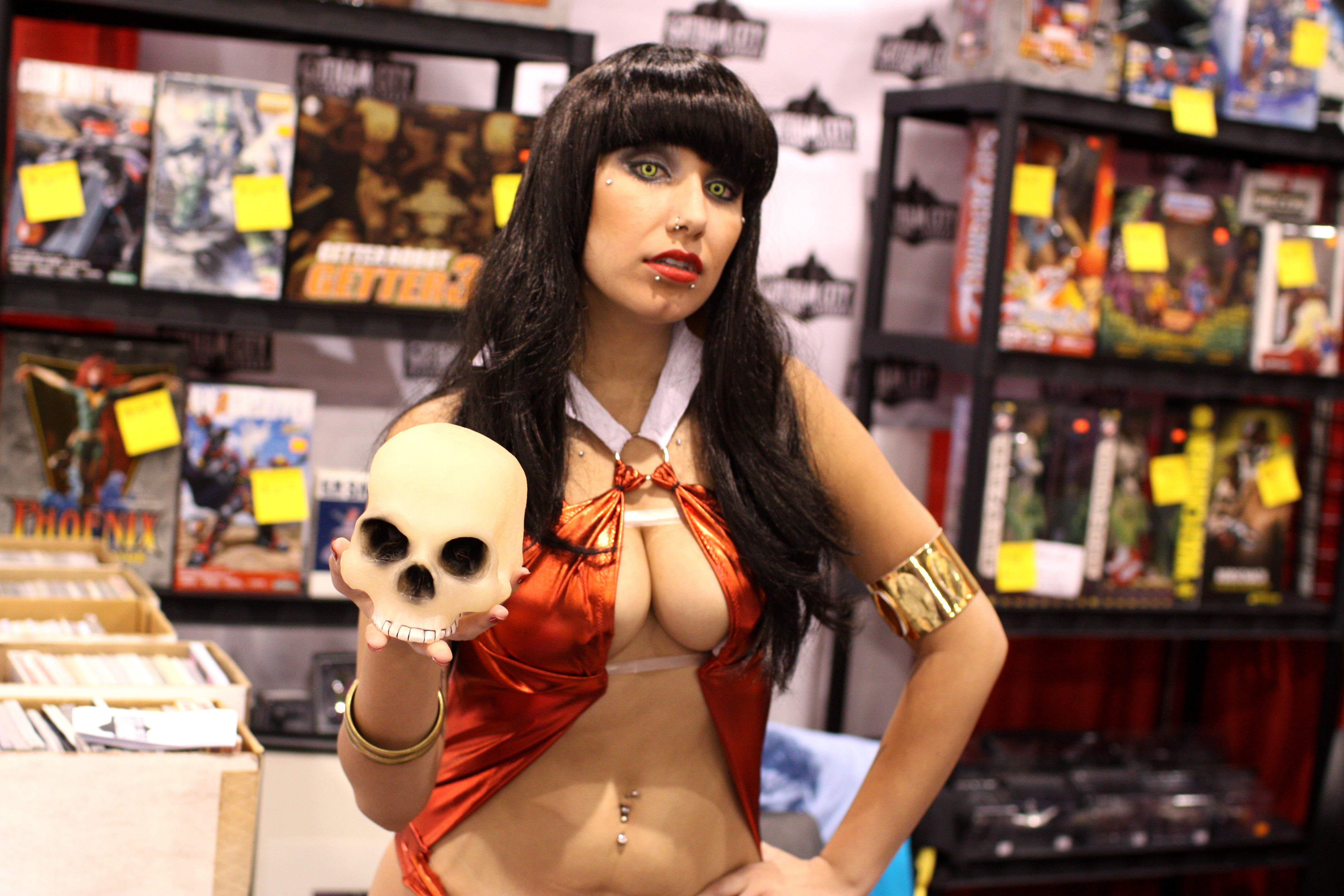 Vampirella cosplayer at the 2012 Phoenix Comicon in Phoenix, Arizona.